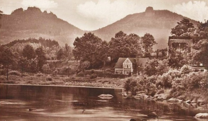 The House - Alt Jannowitz No 110 - Chlopska Street - Janowice Wielkie - 1928